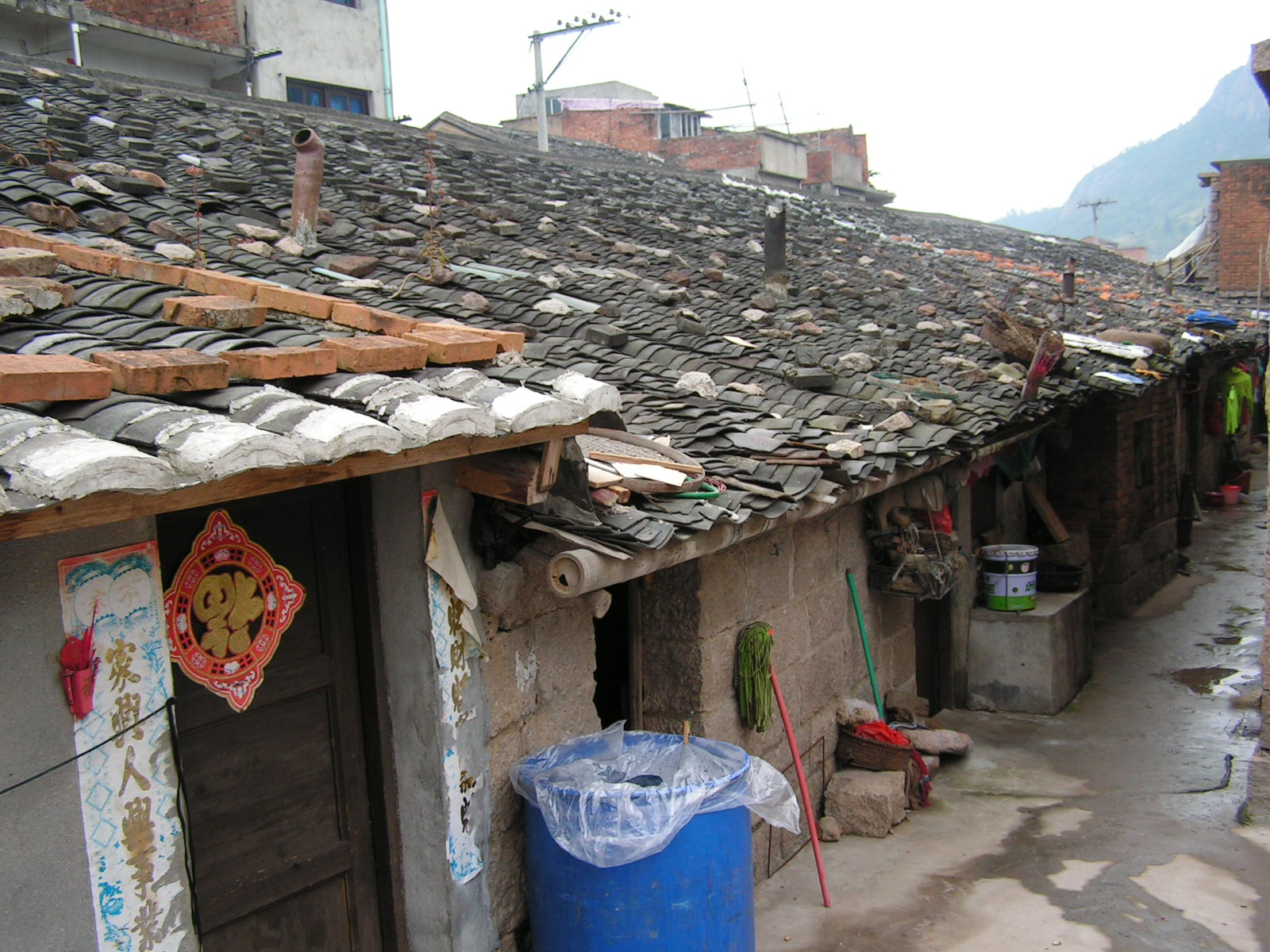 An old land-dwelling of the Fuzhou Tanka people on the coast of Luoyuan County, Fujian Province